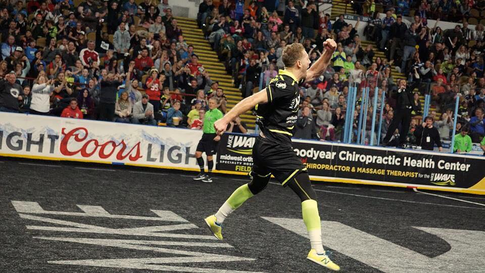 Chad Vandegriffe, a defender for Milwaukee Wave of Major Arena Soccer League, leaping in celebration during a match.